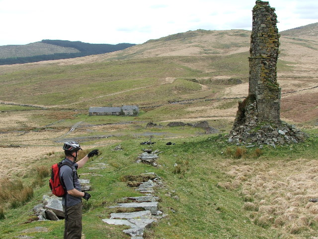 Disused lead mines. Chimney remains